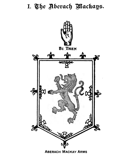 Crest of the Mackay of Aberach family